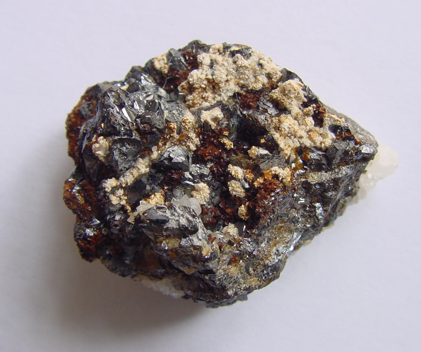 Sphalerite with Gypsum var Selenite and Ankerite from Rampgill Mine, Nenthead, Cumbria, United Kingdom